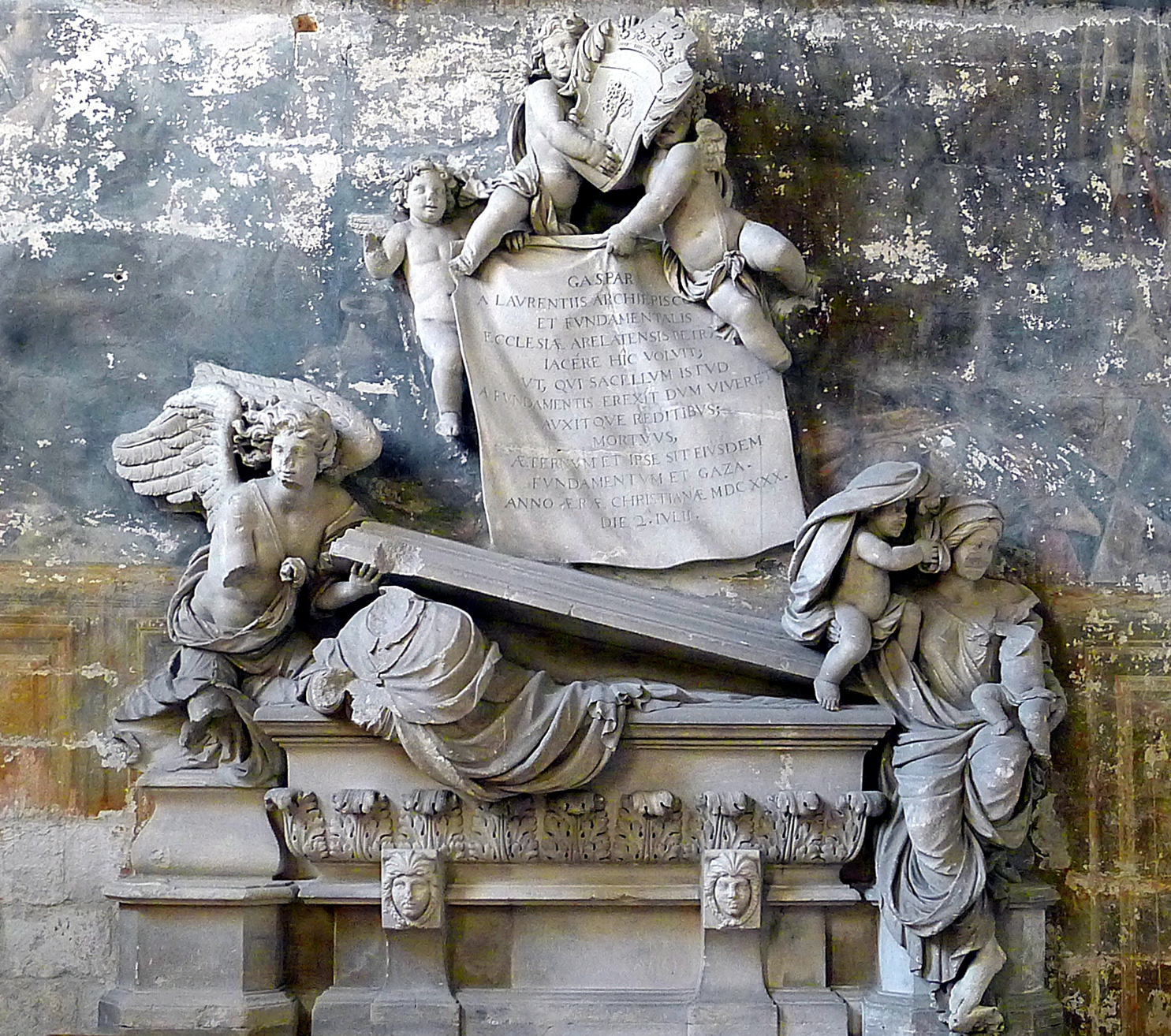 Saint-Trophime church - Arles (Bouches-du-Rhône, France)